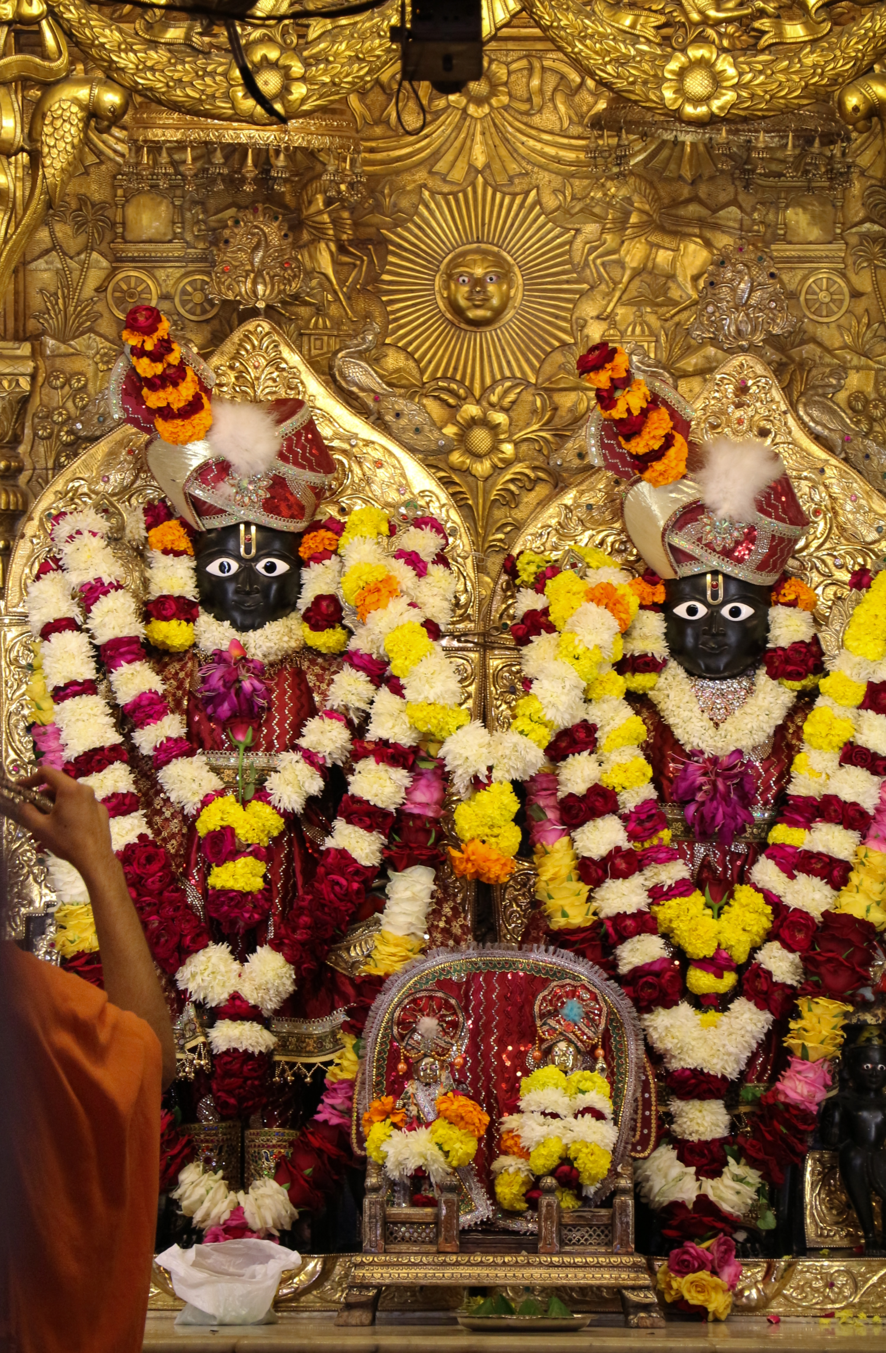 Shree Narnayarandev in Swaminarayan Temple, Kalupur, Ahmedabad, India